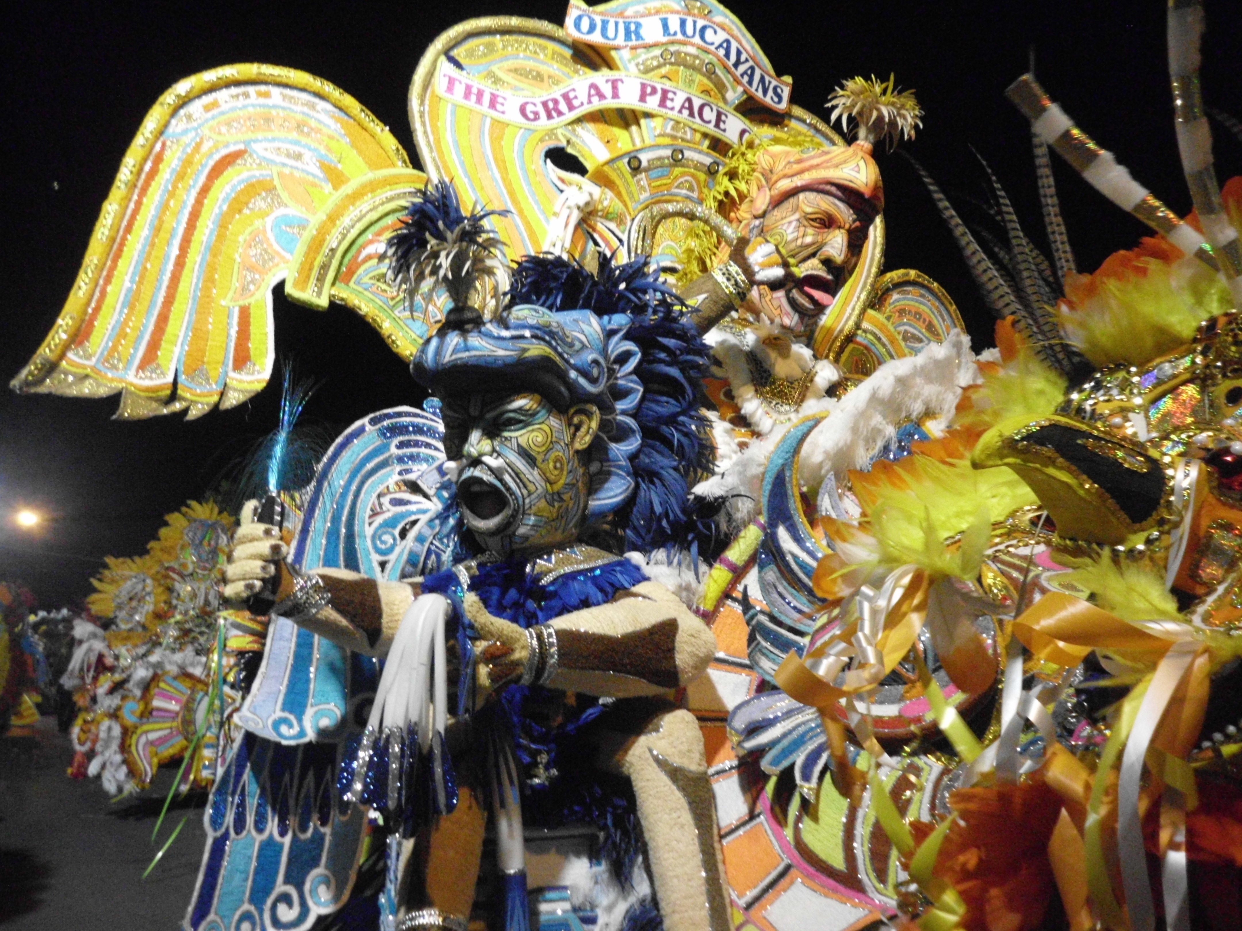 Saxons Costume, Rush for Peace 2011- Freeport GB